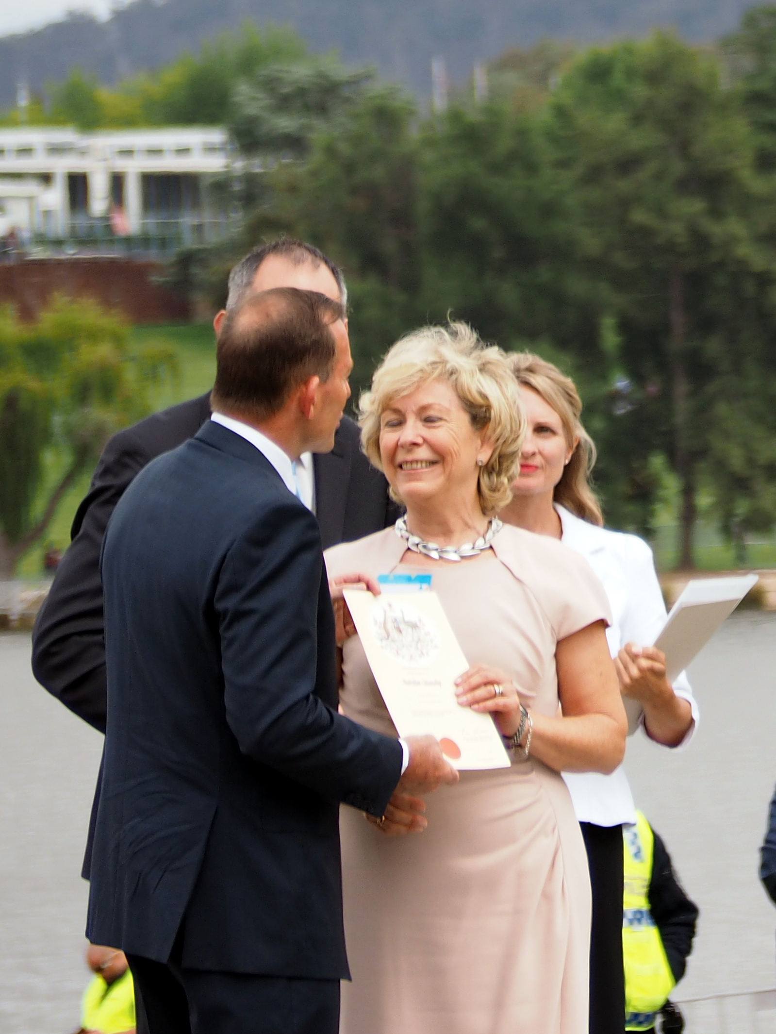 Hilary Kay receiving her Australian citizenship certificate from Prime Minister Tony Abbott at the 2015 National Flag Raising and Citizenship Ceremony